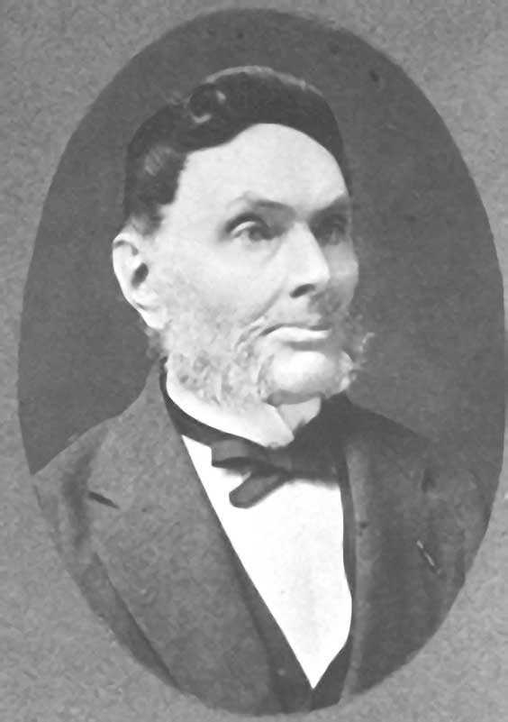 Johann Adolf Karl van Heusde (1812-1878) niederländischer Philologe und Literaturwissenschaftler